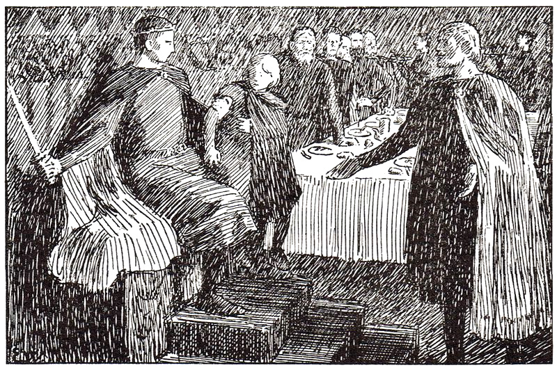 "Hauk Håbrok at king Aethelstan", drawing by the Norwegian artist Erik Werenskiold. The drawing pictures Hauk Håbrok, the envoy of the Norwegian king Harald Hårfagre, with the kings son Håkon, later king Håkon the good. Hauk brought Håkon to England so that he could be raised by the English king Aethelstan. Erik Werenskiold: Illustration for Harald Hårfagres saga, Heimskringla 1899-edition. «Hauk Håbrok hos kong Adalstein.»